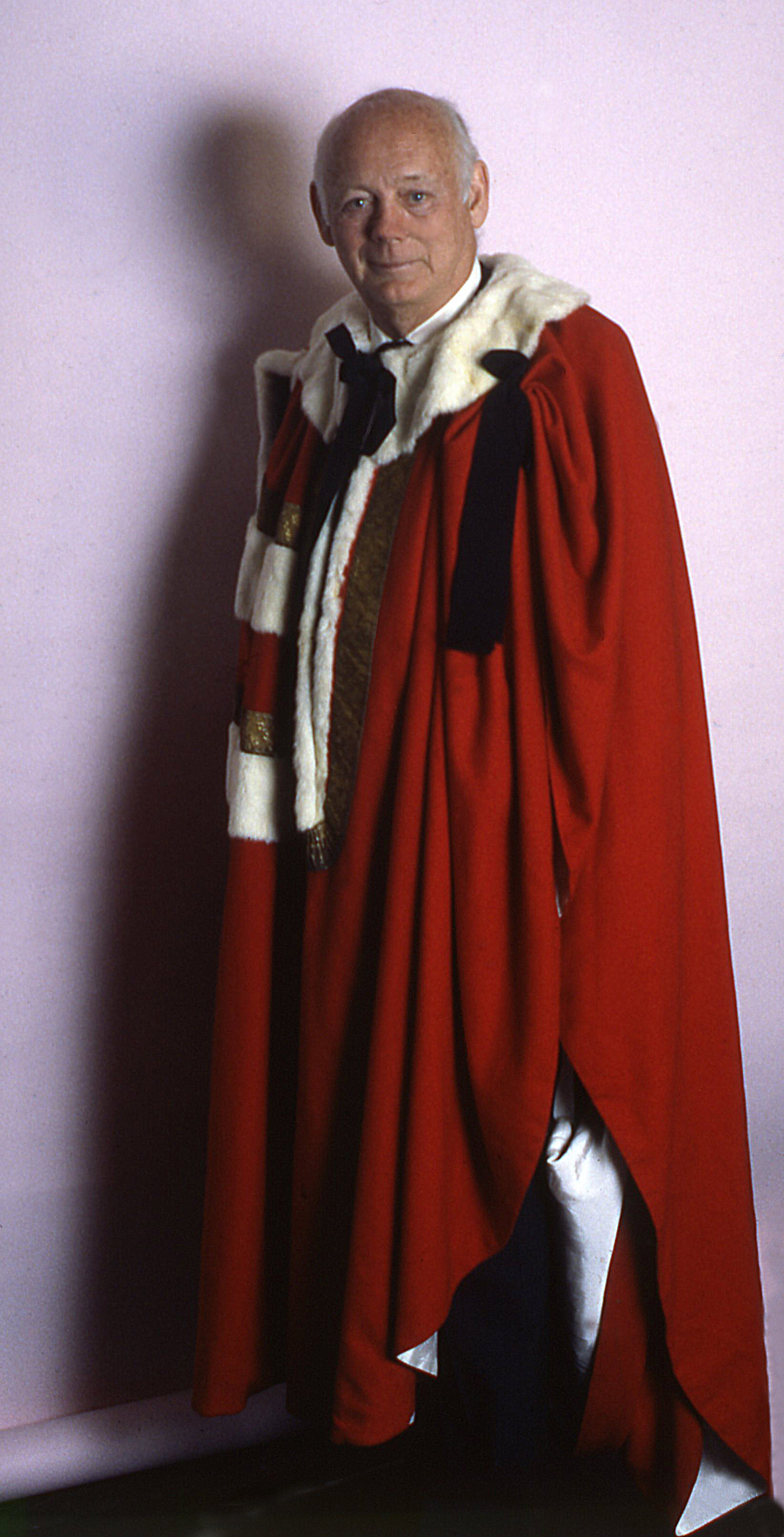 Edward Lord Montagu of Beaulieu taken his his robes as Baron Montagu in London